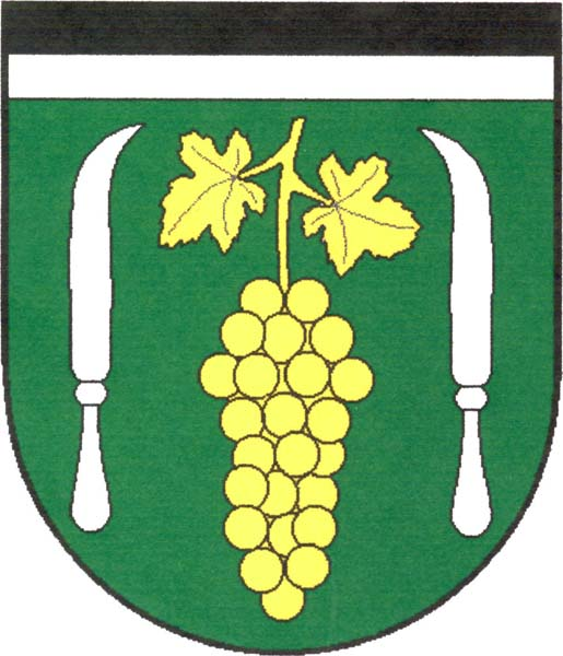 Municipal coat of arms of Starý Poddvorov village, Hodonín District, Czech Republic.